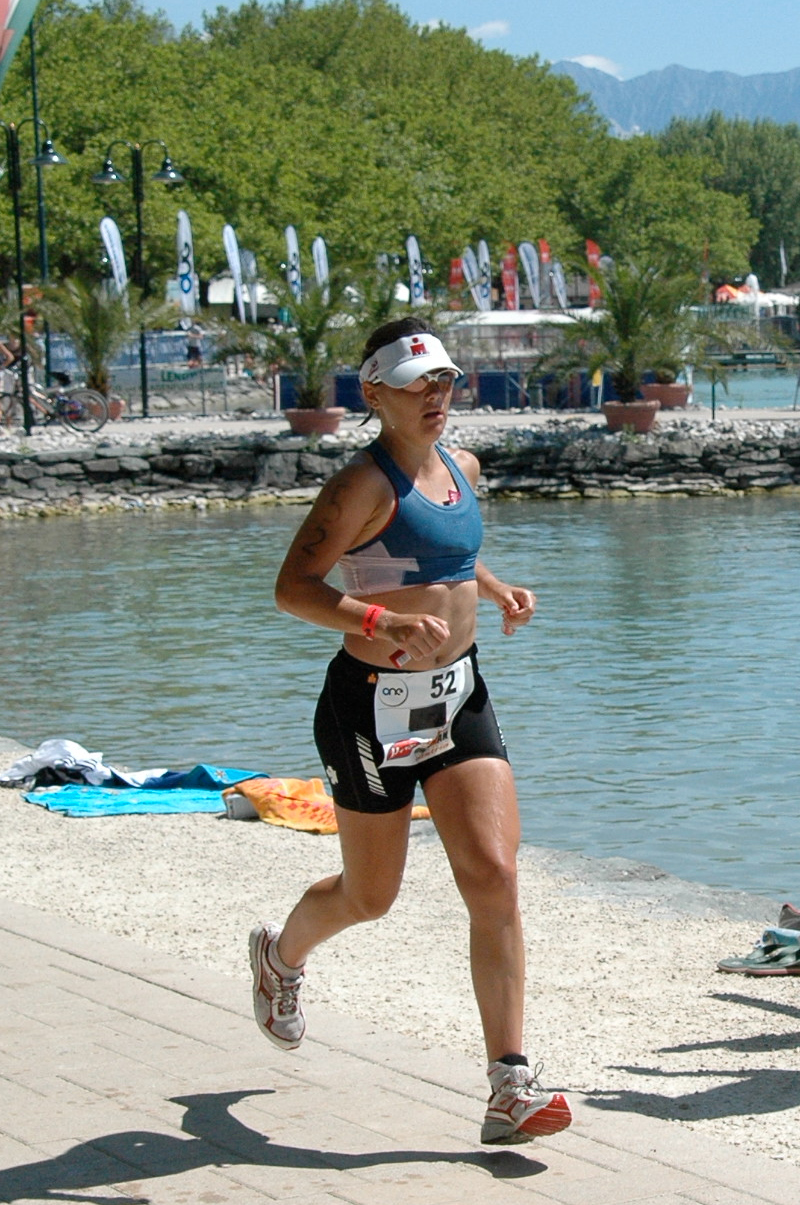 Rebecca Preston at Ironman Austria in Klagenfurt, July 16 2006